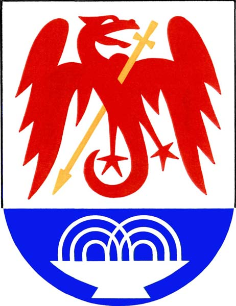 Municipal coat of arms of Velký Osek village, Kolín District, Czech Republic.